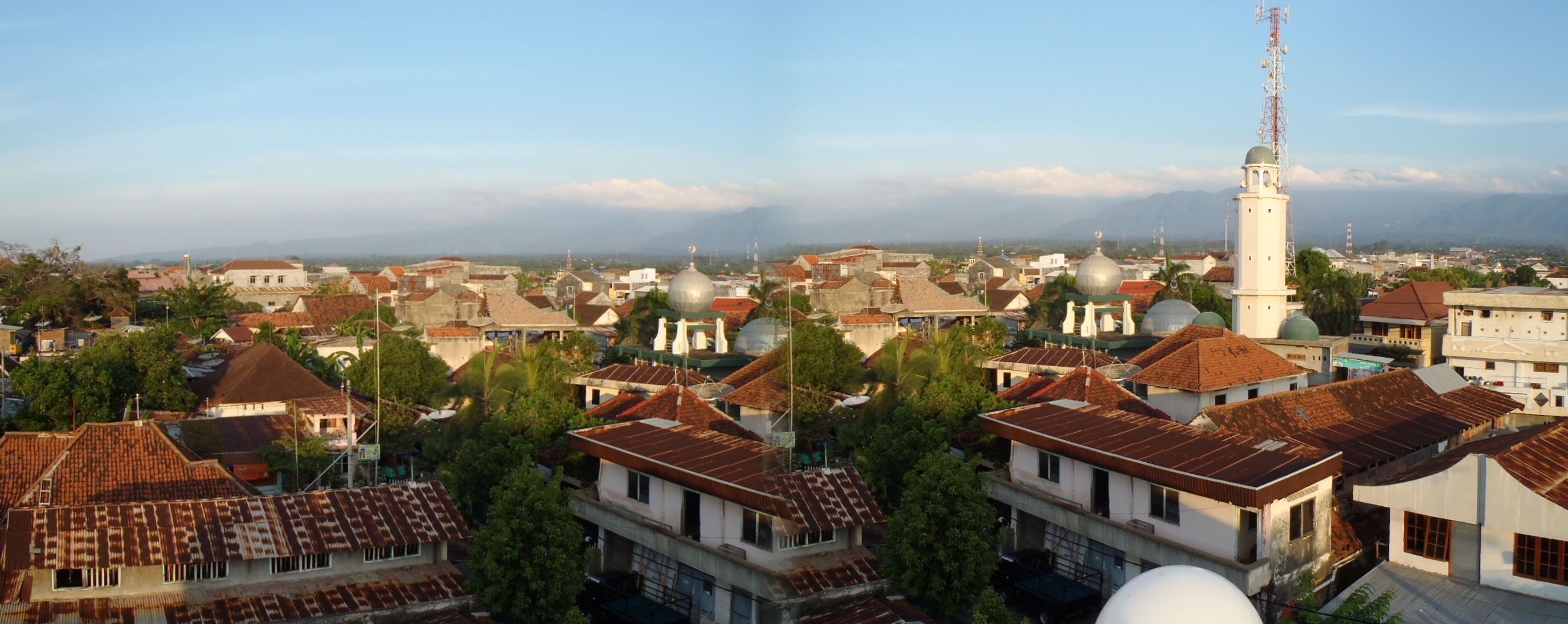 Kampung Bugis, Singaraja, Bali